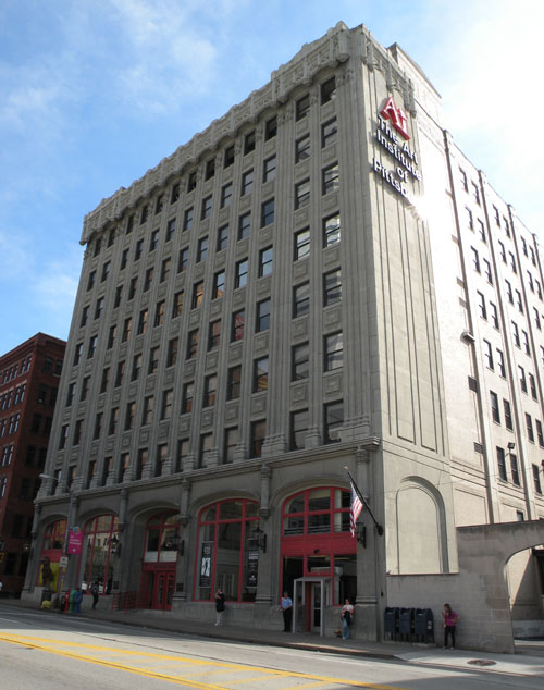 Picture of the Art Institute of Pittsburgh Building (formerly the Equitable Gas Company Building) located at 420 Boulevard of the Allies in Downtown Pittsburgh, Pennsylvania, on September 18, 2010. Built in 1924 and 1925, architect J. F. Kuntz, it is on the List of Pittsburgh History and Landmarks Foundation Historic Landmarks.